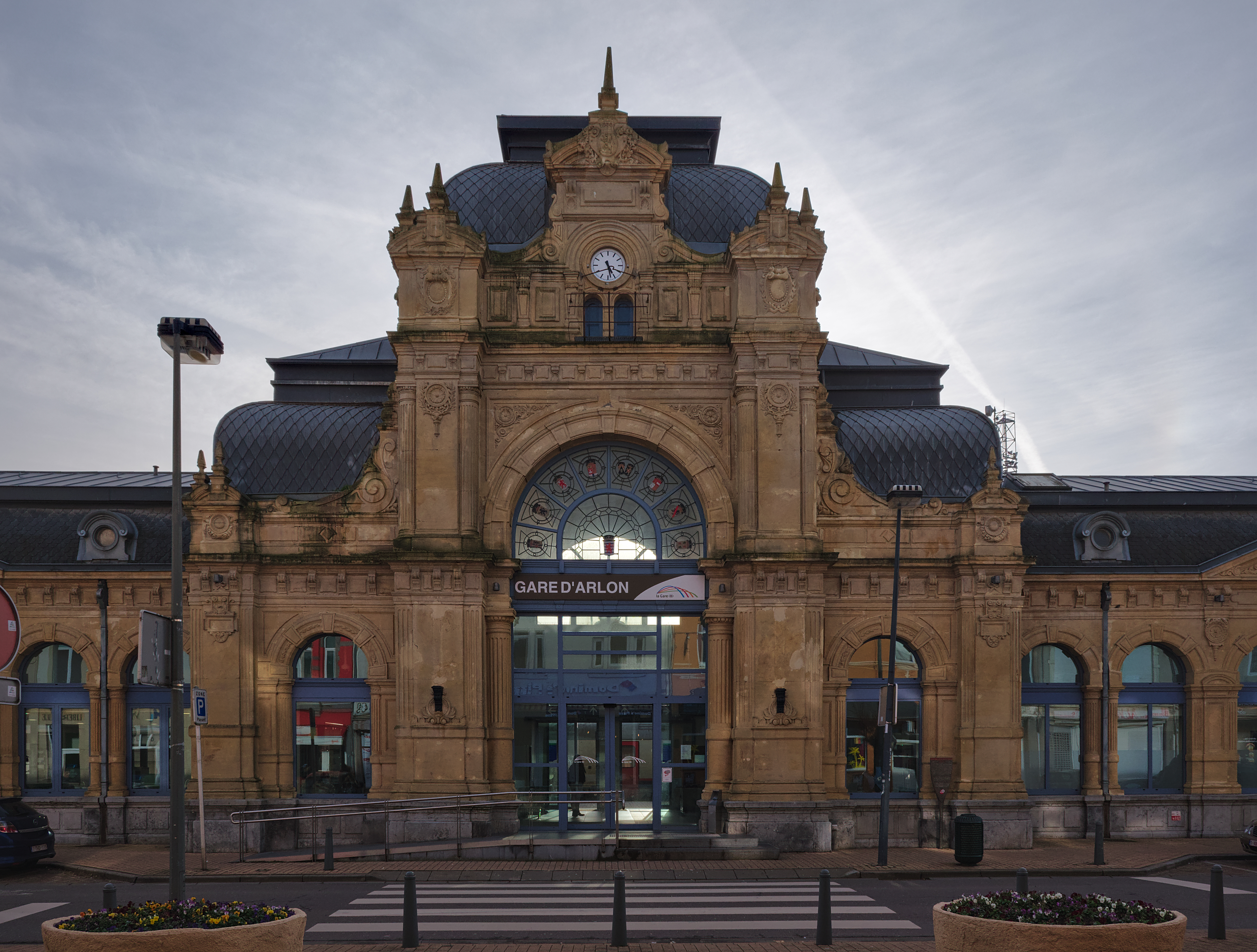 Arlon train station's facade